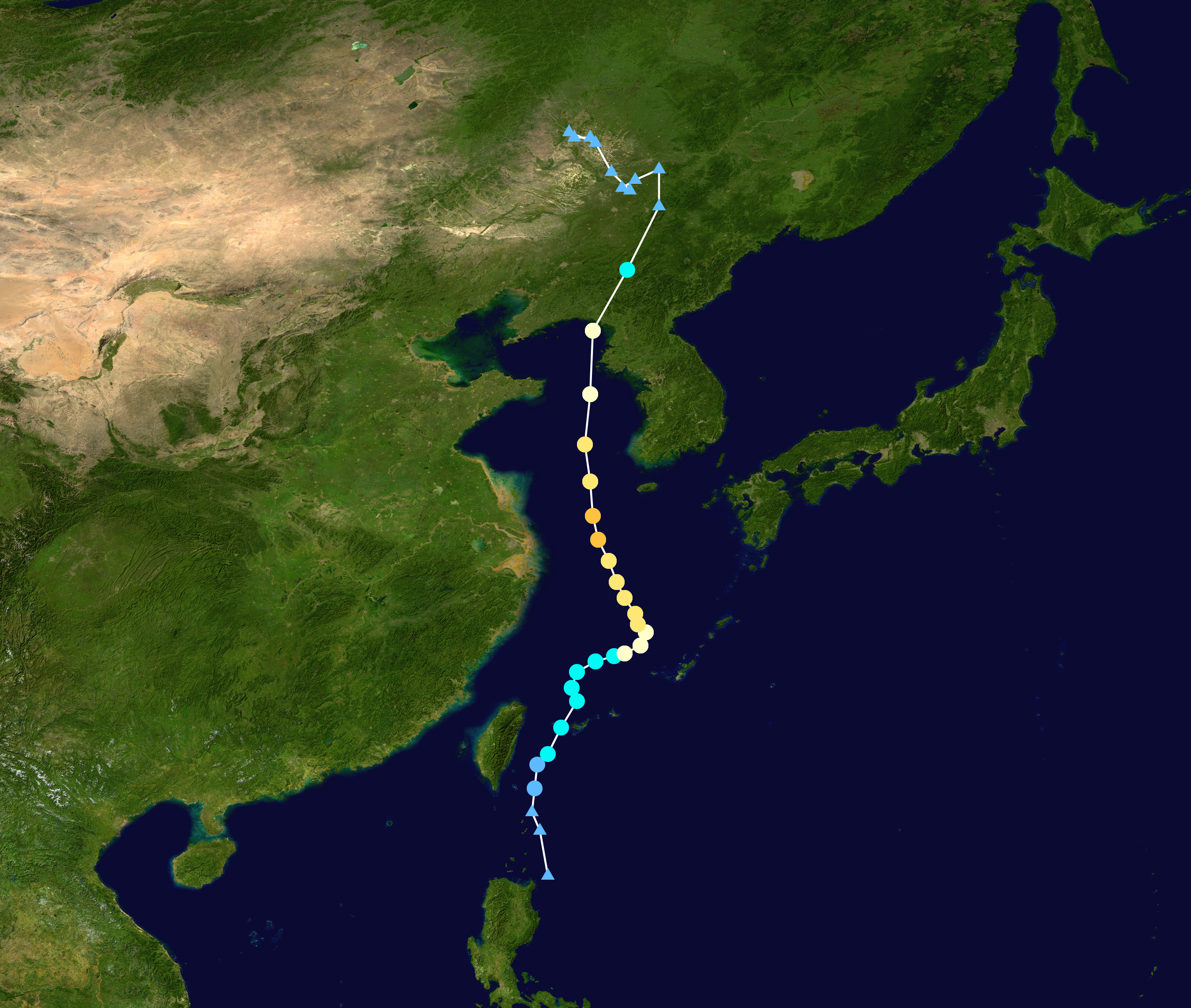 Track map of Typhoon Bavi of the 2020 Pacific typhoon season. The points show the location of the storm at 6-hour intervals. The colour represents the storm's maximum sustained wind speeds as classified in the Saffir–Simpson scale (see below), and the shape of the data points represent the nature of the storm, according to the legend below. Saffir–Simpson scale Tropical depression≤38 mph≤62 km/h Category 3111–129 mph178–208 km/h Tropical storm39–73 mph63–118 km/h Category 4130–156 mph209–251 km/h Category 174–95 mph119–153 km/h Category 5≥157 mph≥252 km/h Category 296–110 mph154–177 km/h Unknown Storm type Tropical cyclone Subtropical cyclone Extratropical cyclone / Remnant low / Tropical disturbance / Monsoon depression